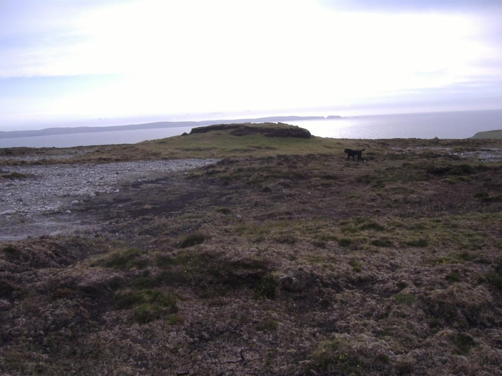 Sidheáns are blocks of turf which are left uncut by the turf cutters. They are places where there is a 'bad feeling' about cutting the turf from them. Sidheans normally consist of just peat. Carraghauns are similar but they have rocks in them (possible megalith sites) and Leachtas have exposed stones in them. This sidheán is at Killgalligan, Kilcommon, Erris, North Mayo. Its name is Sidheán Mór.